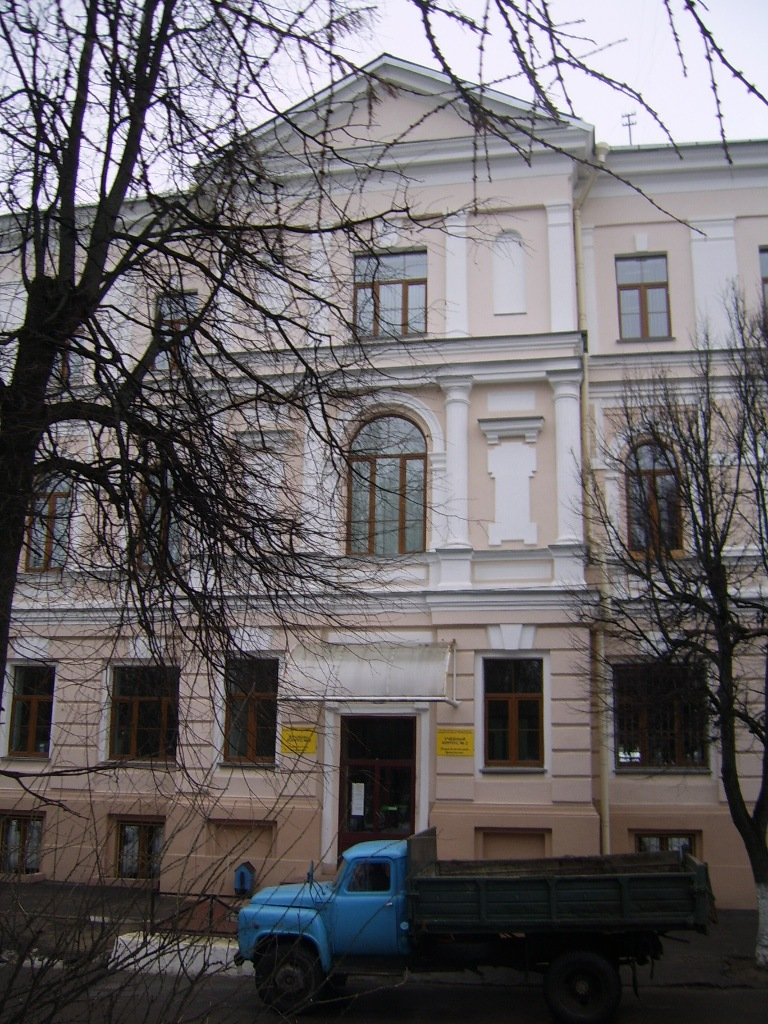 Vitebsk State University